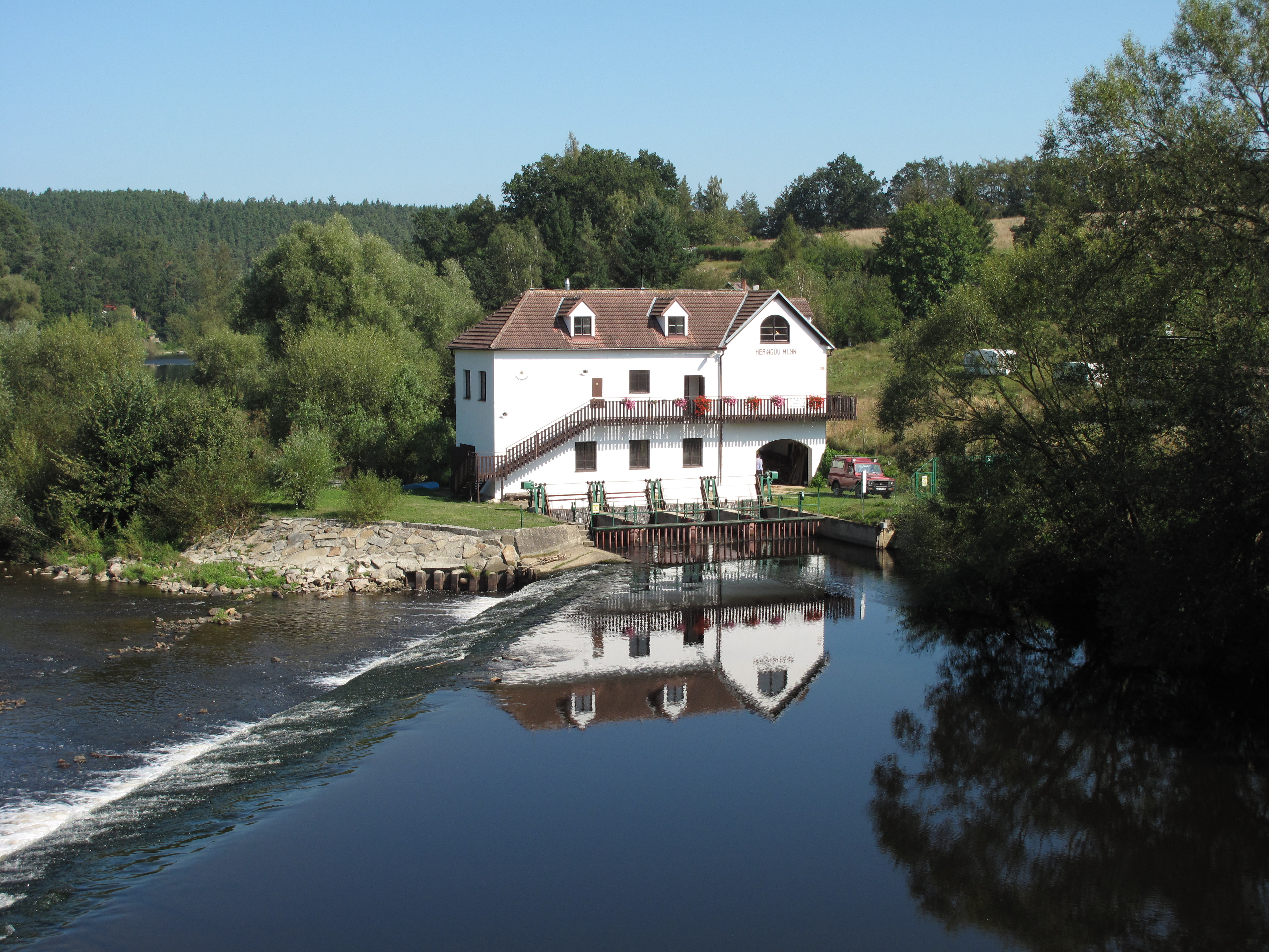 Hering Mill with weir on Otava River, Písek District, Czech Republic.